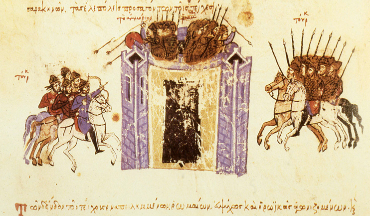 The Siege of Amorium by the Arabs in 838, from the Madrid Skylitzes, cod. Vitr. 26-2, fol. 59v